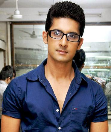 Ravi Dubey from the Rehearsals for 4th Boroplus Gold Awards